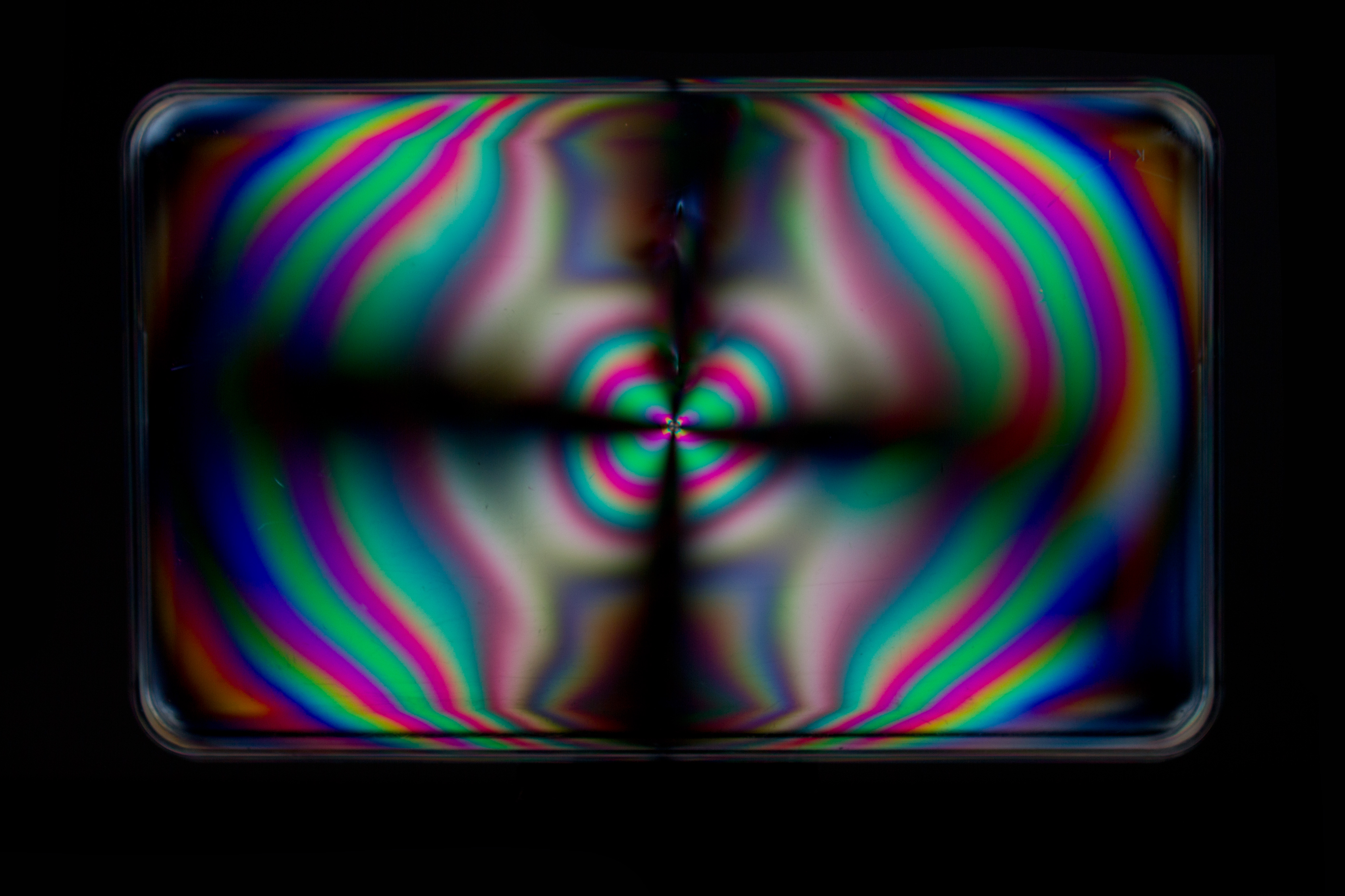 Internal stresses in the tested object. Taken in a double polarized light. Isochromes seen in the polaroscope.